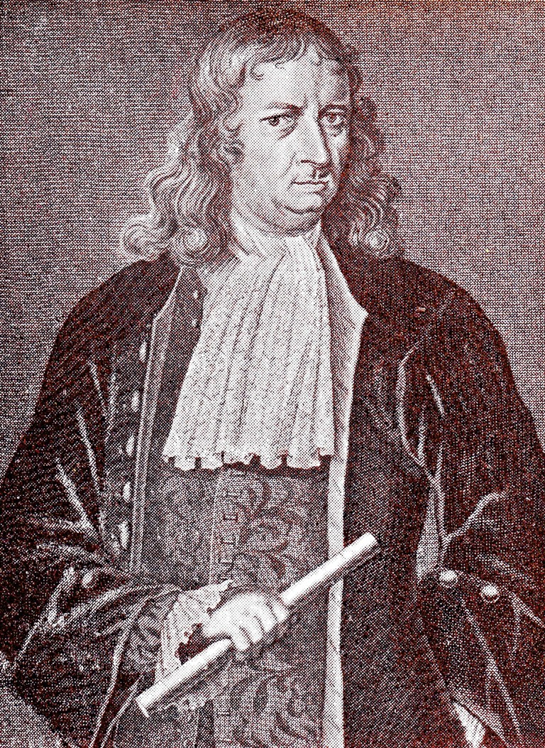 Christoffel van Swol